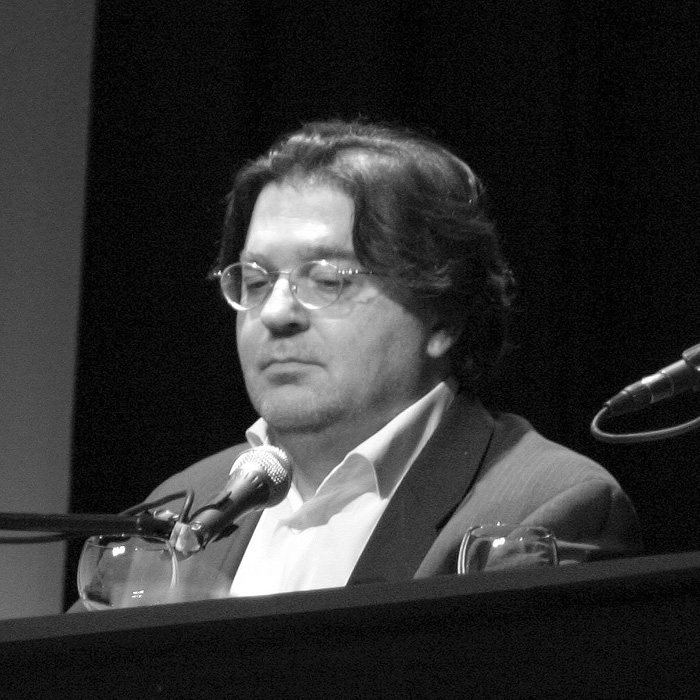 Leon de Winter, Dutch writer and columnist, at lit.cologne, Cologne literature festival 2006, Germany date: 2006-03-17 author: Elke Wetzig (elya)